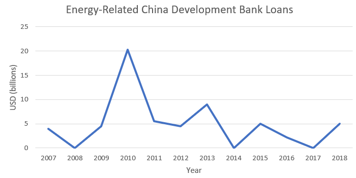 Line graph of subset of China's loans towards Venezuela (data from